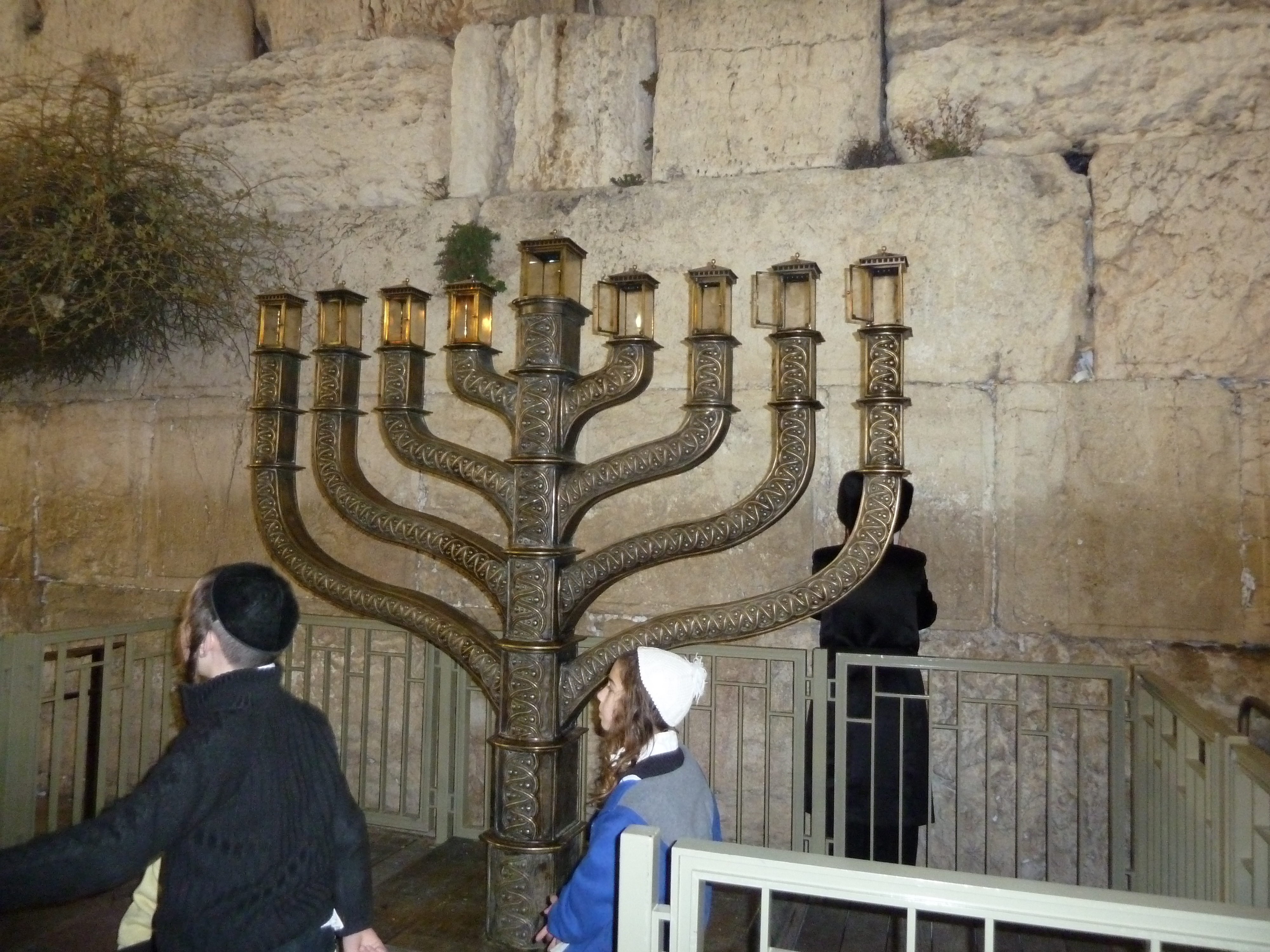 Jerusalem Western Wall at night with chanukkiyah during Hanukkah festival (8th day)